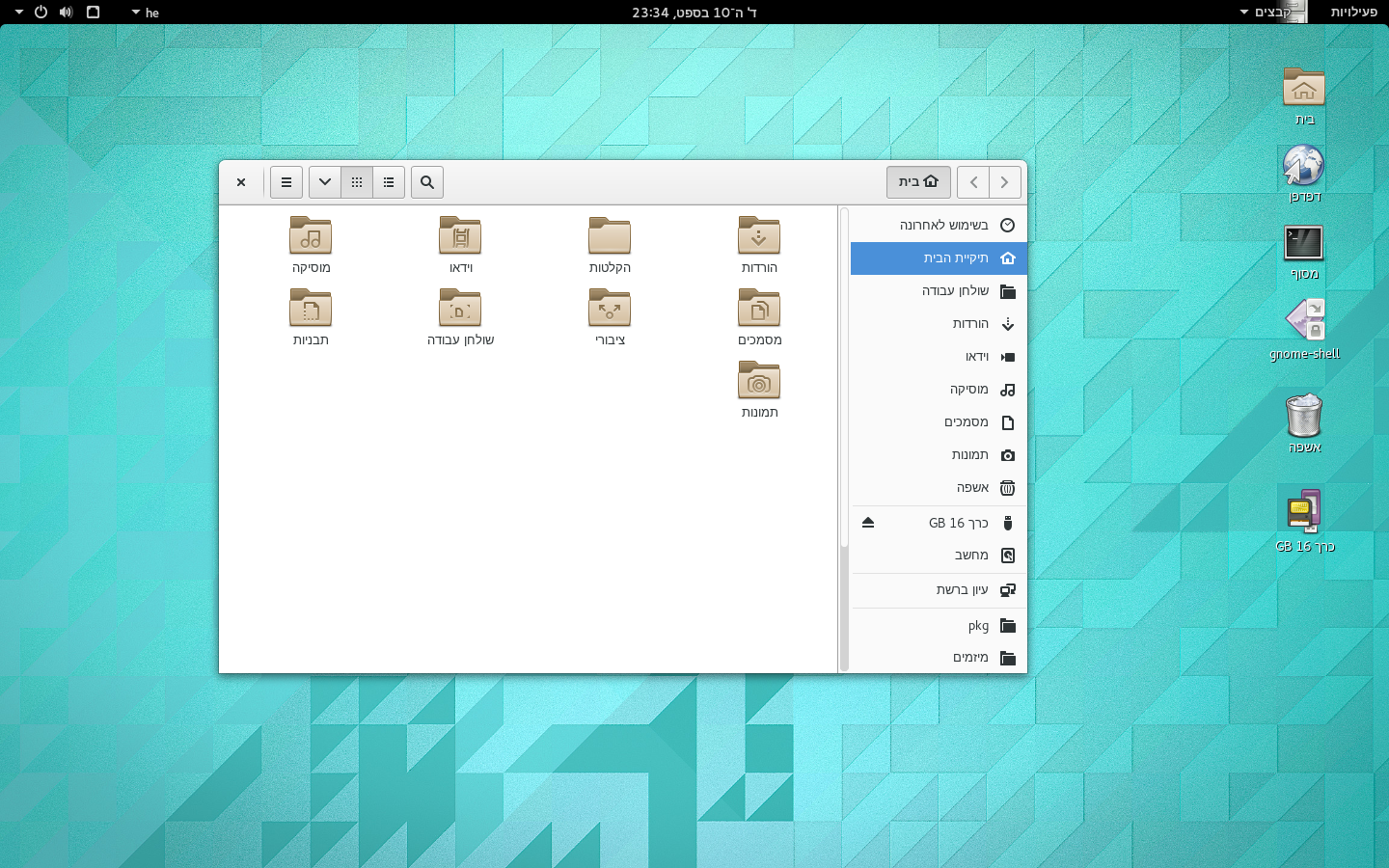 ArchLinux with GNOME 3.14 in Hebrew